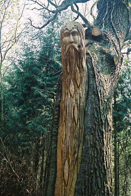 Photograph depicting a carving by Paul Sivell, titled "Whitefield Green Man."